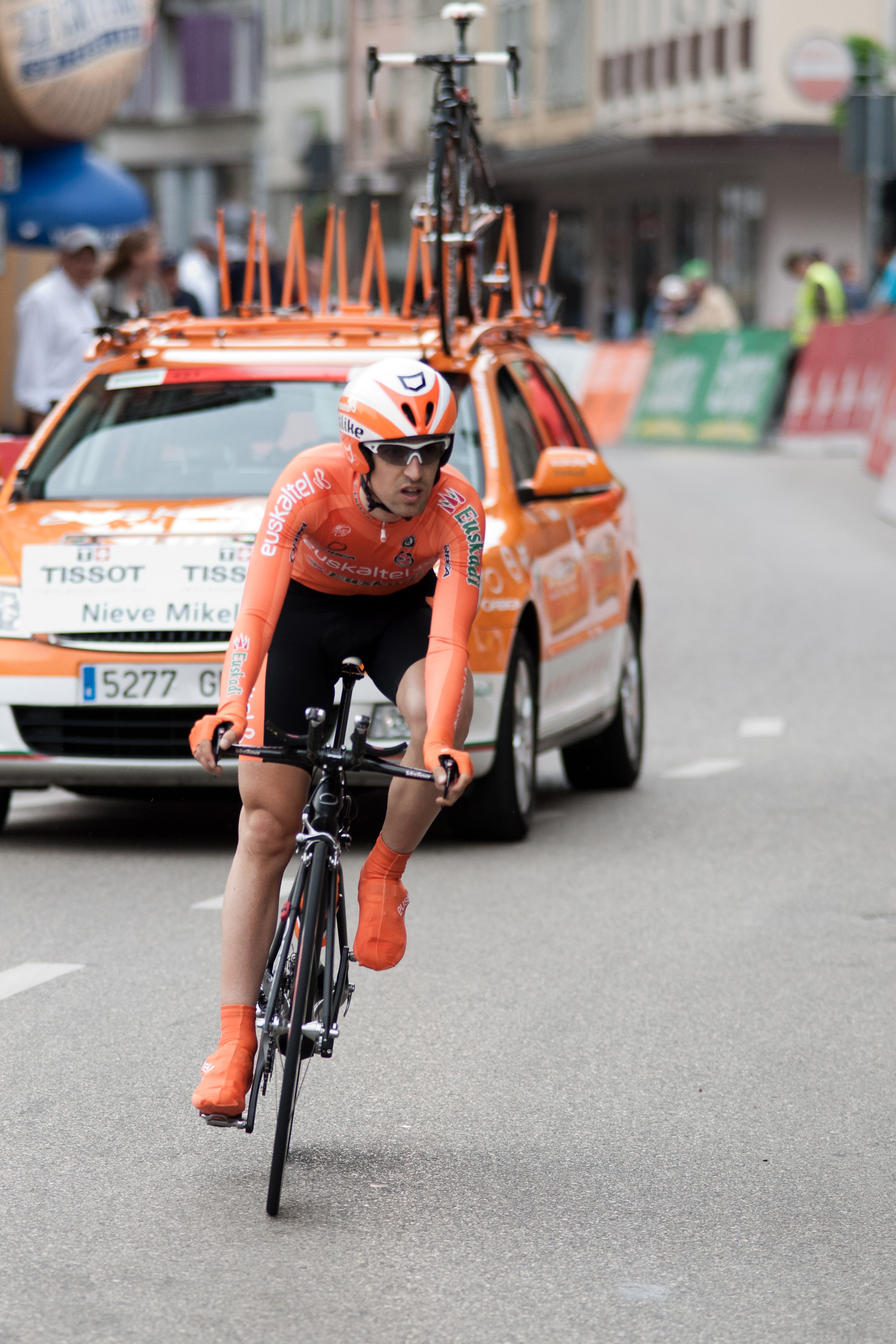 Mikel Nieve Ituralde during the 3rd stage of the Tour de Romandie 2010.